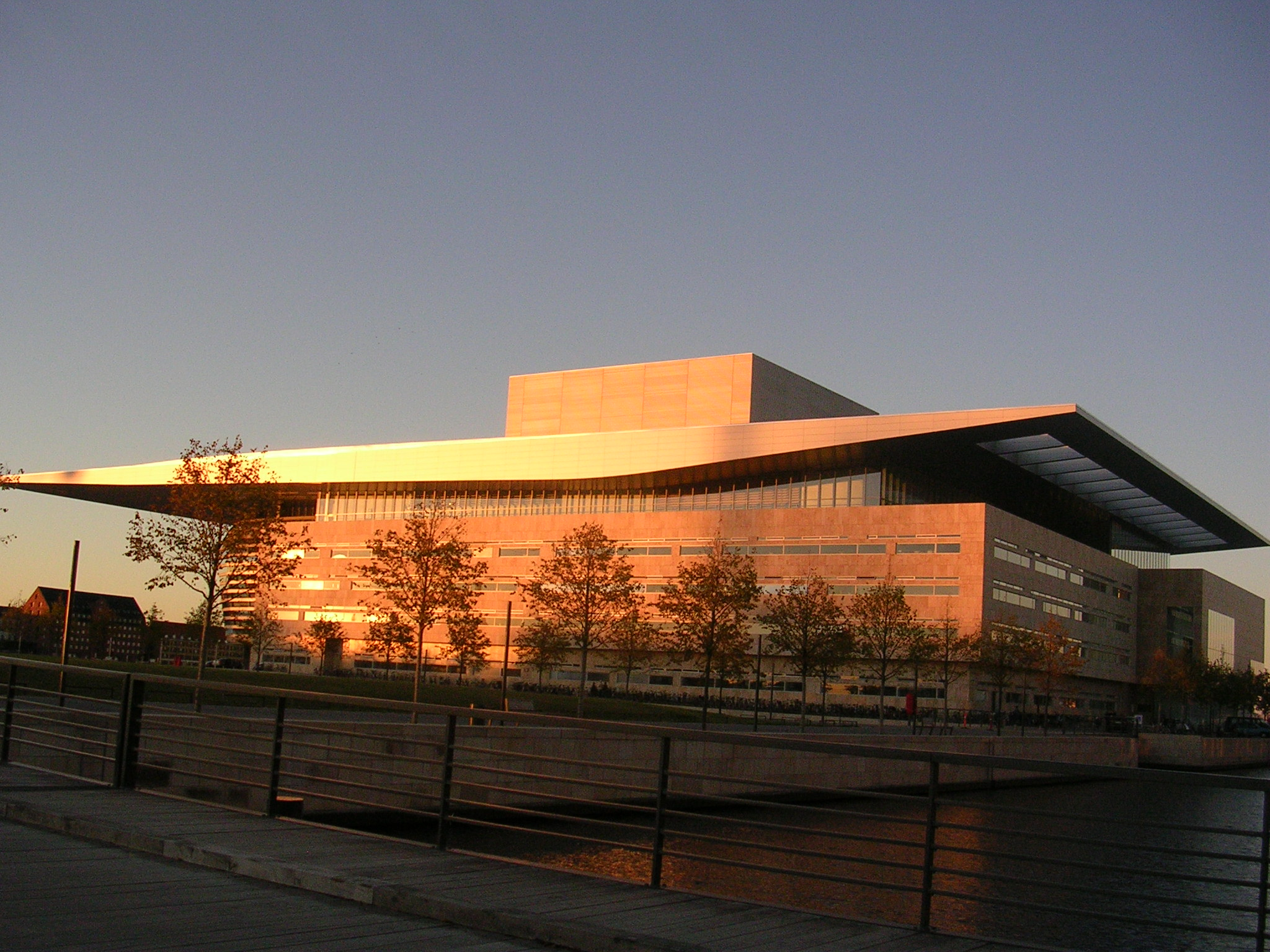 Copenhagen Opera House Author: Väsk Date: 2005-10-16